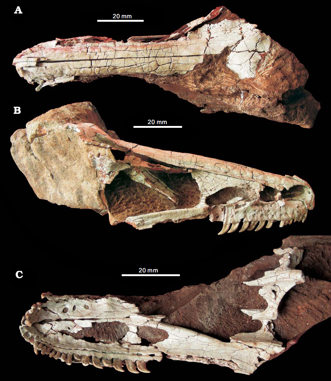 Skull of troodontid theropod Xixiasaurus henanensis gen. et sp. nov. (HGM 41HIII−0201; holotype), lower–middle Majiacun Formation (Upper Cretaceous: Coniacian–Campanian), Henan Province, China; in dorsal (A); lateral (B), and ventral (C) views. Note that this version of the image does not include the interpretative lines of the version in the paper.